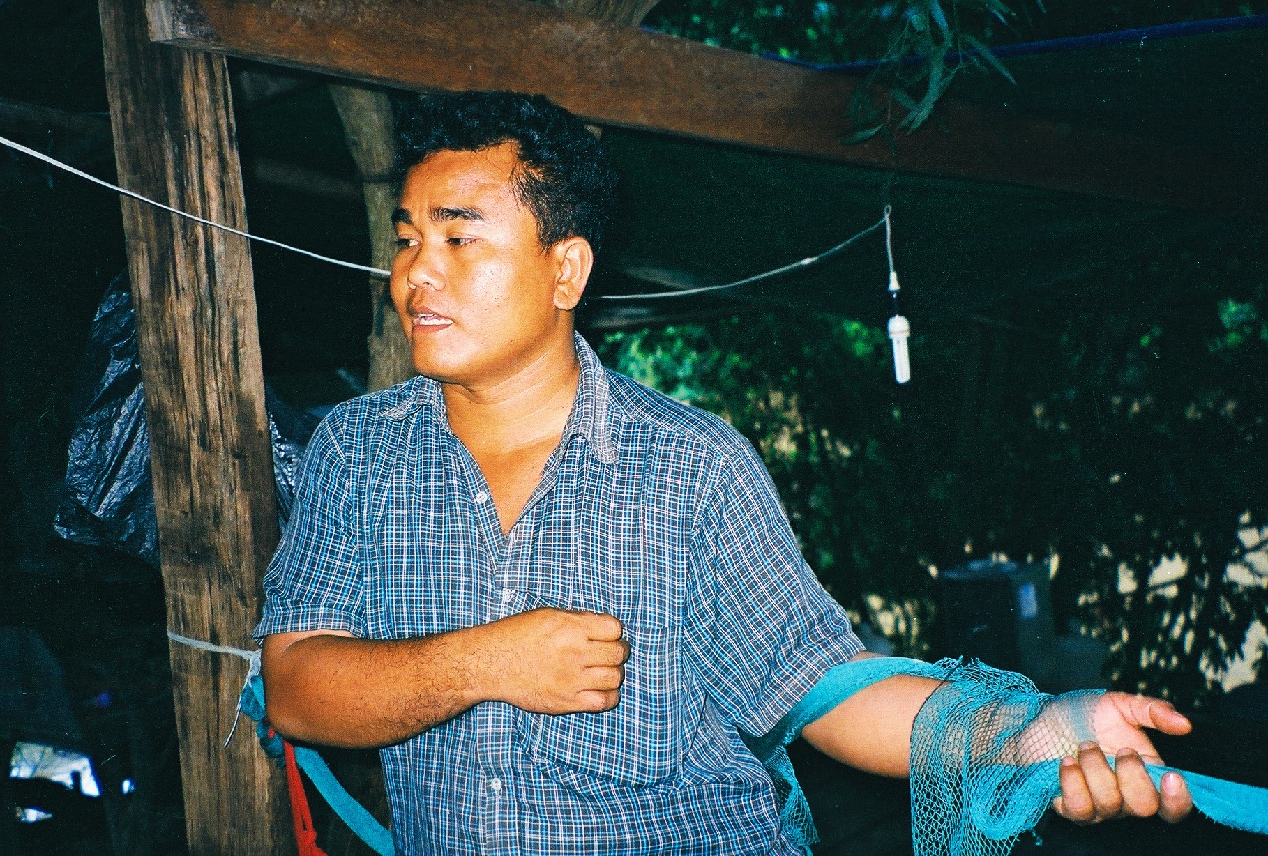 Image supplied by Antonio Graceffo.